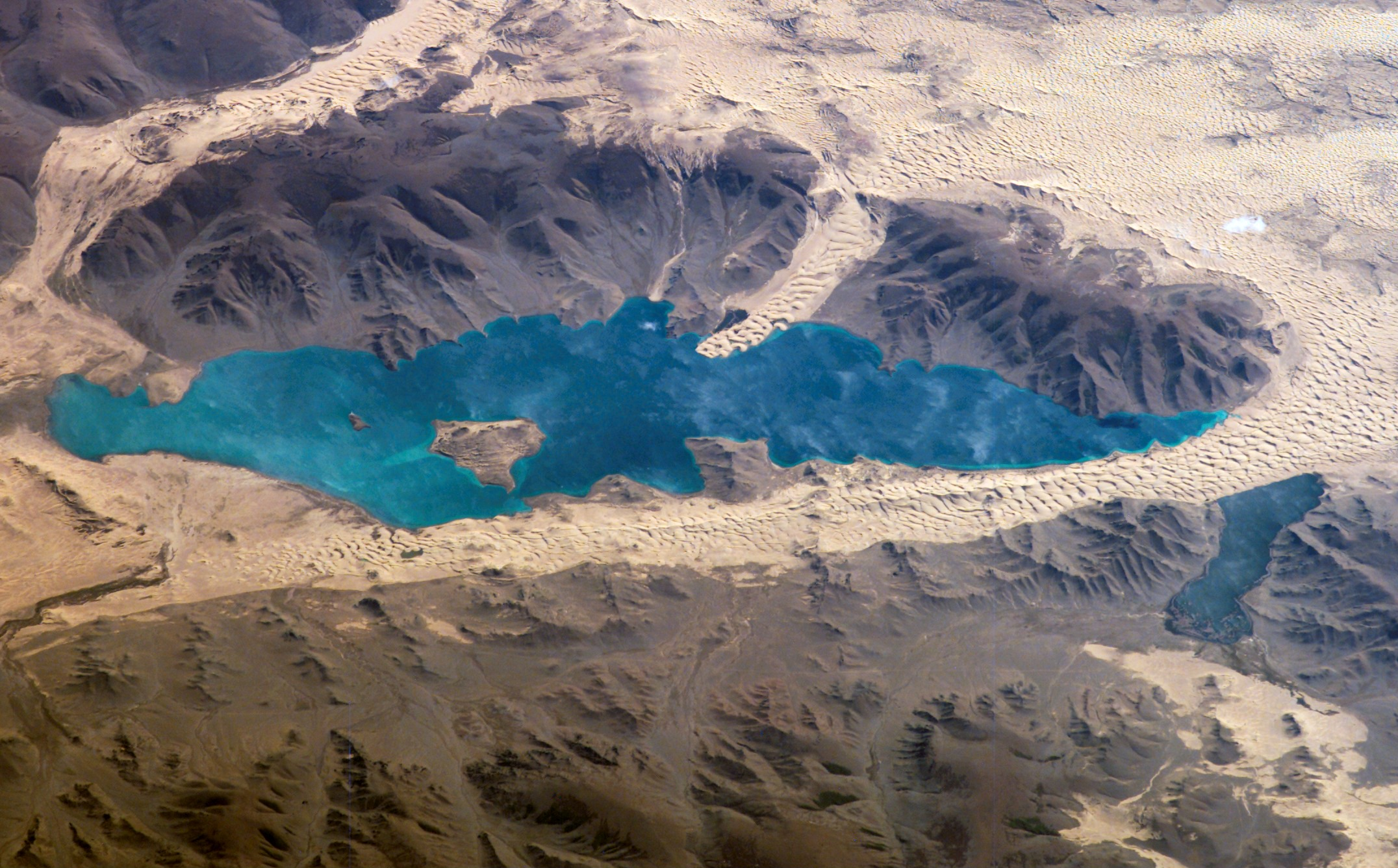 Image caption and information available at [1] Khar Nuur, or the Black Lake, is located in western Mongolia's Valley of Lakes, part of a system of closed basins stretching across central Asia. These basins are the remnants of larger paleolakes (paleo- means "ancient") that began to shrink approximately 5,000 years ago as regional climate became drier. Like other lakes in the region, Khar Nuur relies on precipitation, growing in the spring and shrinking in the summer. This process of growth and shrinkage produces a variety of wetland habitats, as well as resting points for large numbers of migratory birds. This photograph captures the dynamic nature of the landscape of Khar Nuur. The lake is encircled by sand dune fields that encroach on the lower slopes of the Tovkhosh Mountains to the west and south. Gaps in the mountains have been exploited by sand dunes moving eastward, indicating westerly winds. The most striking example is a series of dunes entering Khar Nuur along its southwestern shoreline. Here, the dunes reflect the channeling of winds through the break in the mountain ridgeline, leading to dune crests lying perpendicular to northwesterly winds. Another well-developed line of dunes appears between Khar and Baga Lakes; while these dunes appear to cut across a lake surface, the dunes have in fact moved across a narrow stream channel. This image was acquired Sept. 7, 2006, by the crew of the International Space Station Kodak 760C digital camera using a 400 mm lens, [1] Image credit: NASA